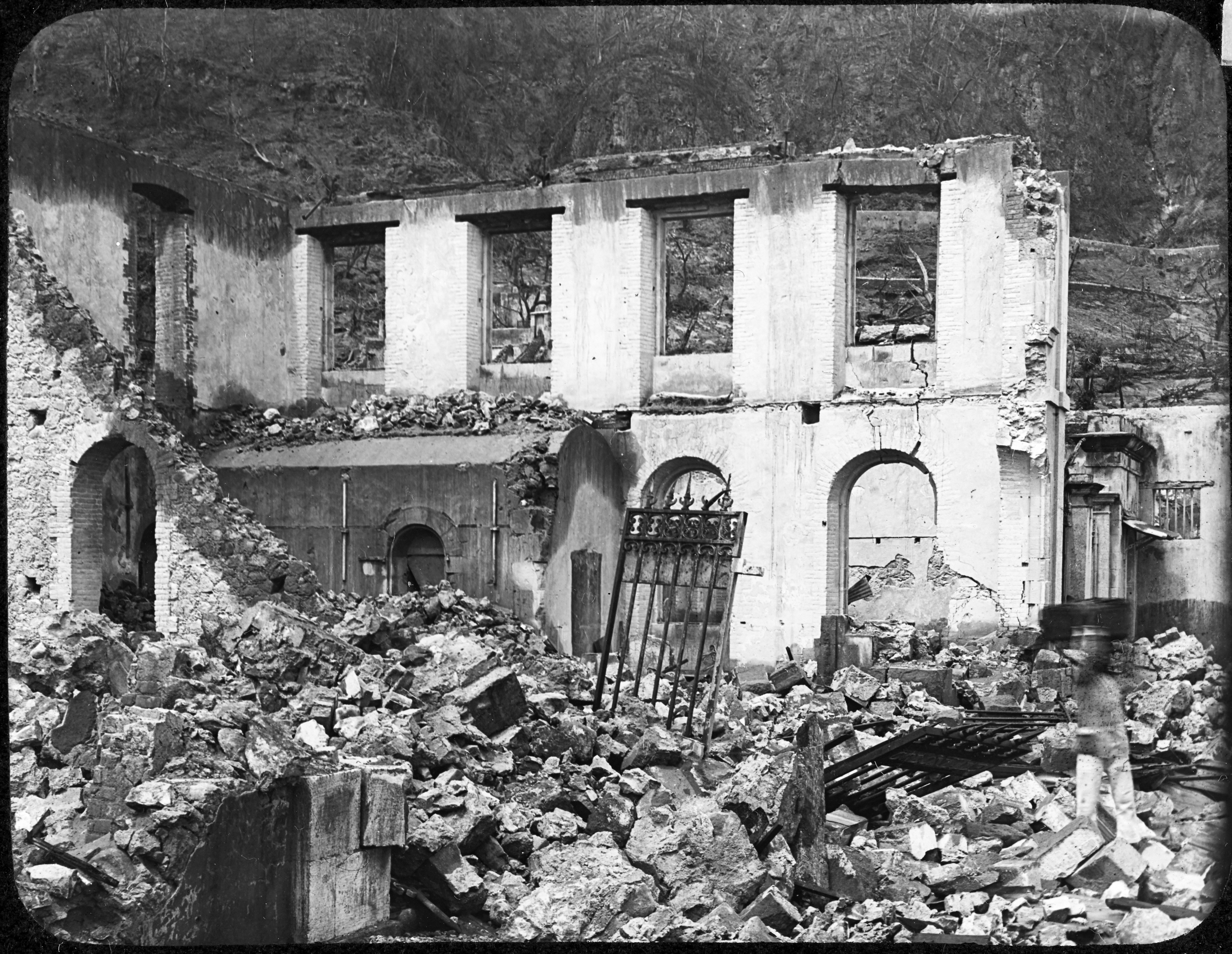 One Slide and one negative. Devastated building after the Mont Pelee eruption. 'St Pierre (Bank?) of Martinique'.